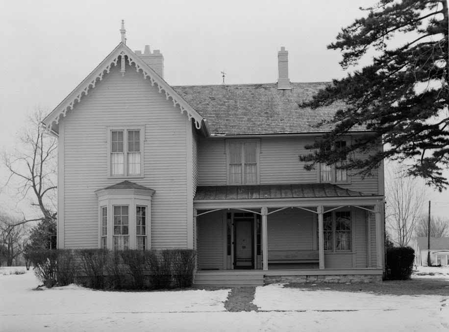 View of the General John J. Pershing House, Laclede, Missouri